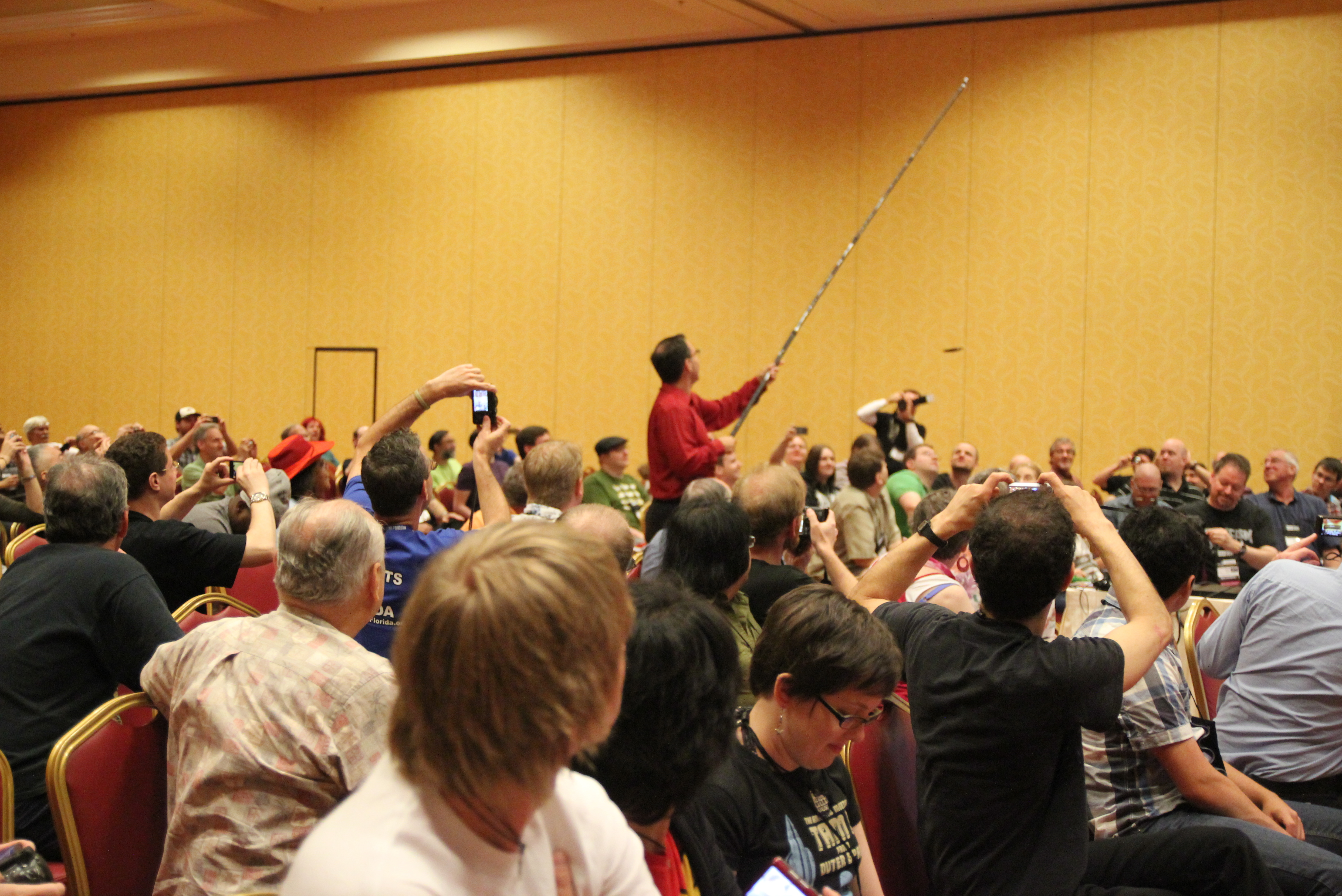 At TAM9 "Making Your Own UFO" workshop. July 14, 2011